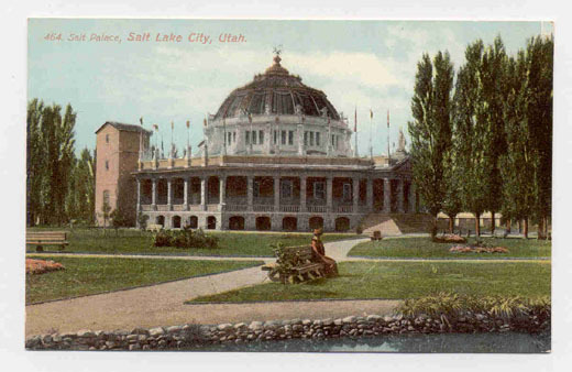 Postcard of Salt Palace 1910 (now demolished)